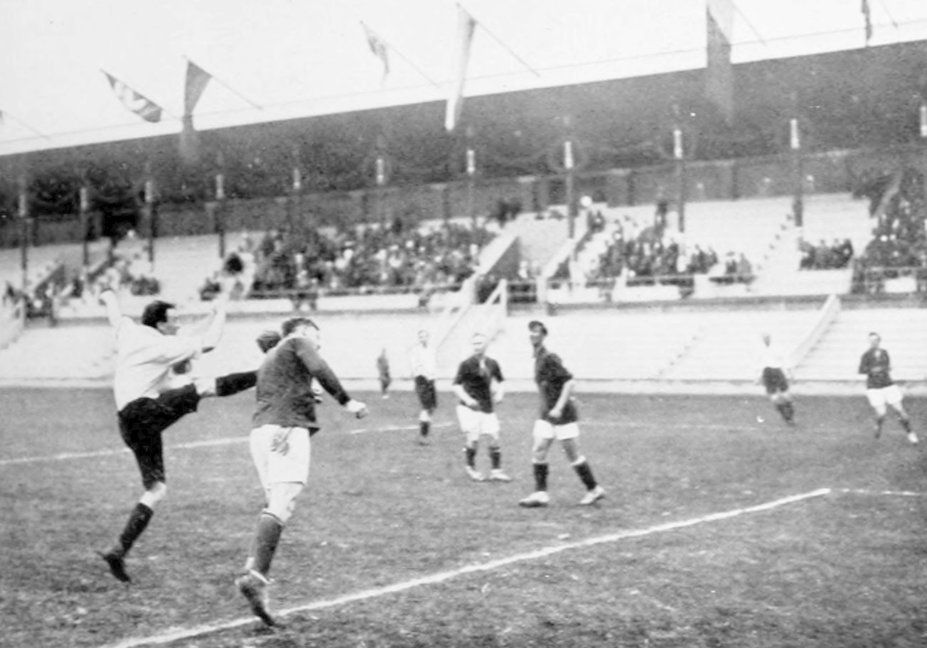 Semi final of the football competition at the 1912 Summer Olympics (Finland in dark jerseys).